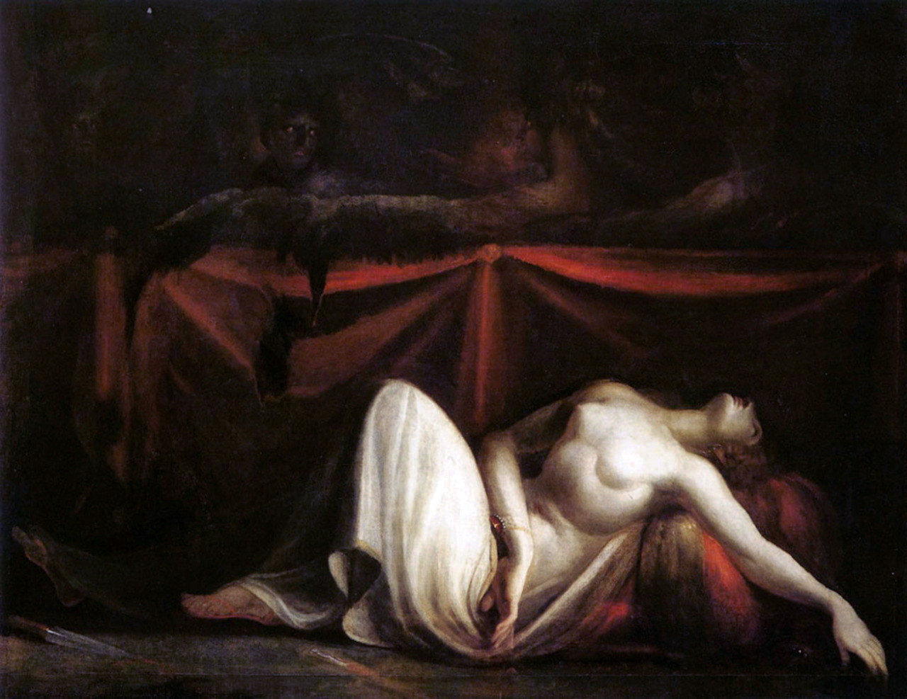 Henry Fuseli - The Erinyes Drive Alcmaeon from the Corpse of his Mother, Eriphyle, Whom He Has Killed. 1821 or Assassinated Woman and the Furies / Kunsthaus, Zurich, Switzerland